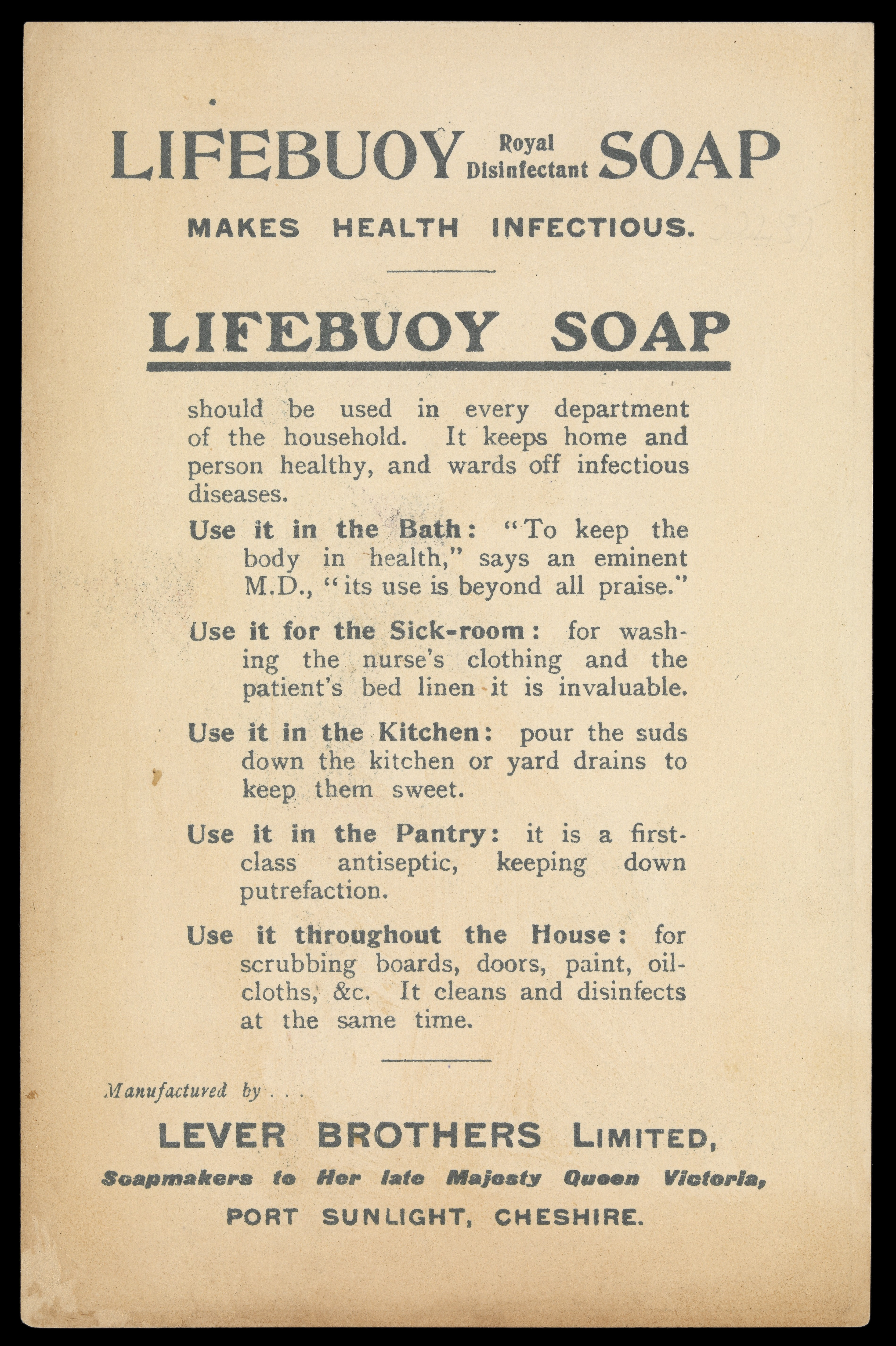 Advertising material for Lifebuoy Soap listing the products many uses. Includes the tag line "Makes Health Infectious." The list includes the use of the product in the bath, with an endorsement by an "eminent M.D.", around the house as a general purpose cleaner, and in the kitchen as a drain cleaner. Reverse of L0069085. General Collections Keywords: Disinfectant; Drain; Lifebuoy Soap.; Advertisment; Hygiene; Anti-Infective Agents, Local; Antiseptic; Soap